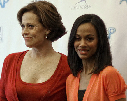 Sigourney Weaver & Zoe Saldana in Moscow 2009.